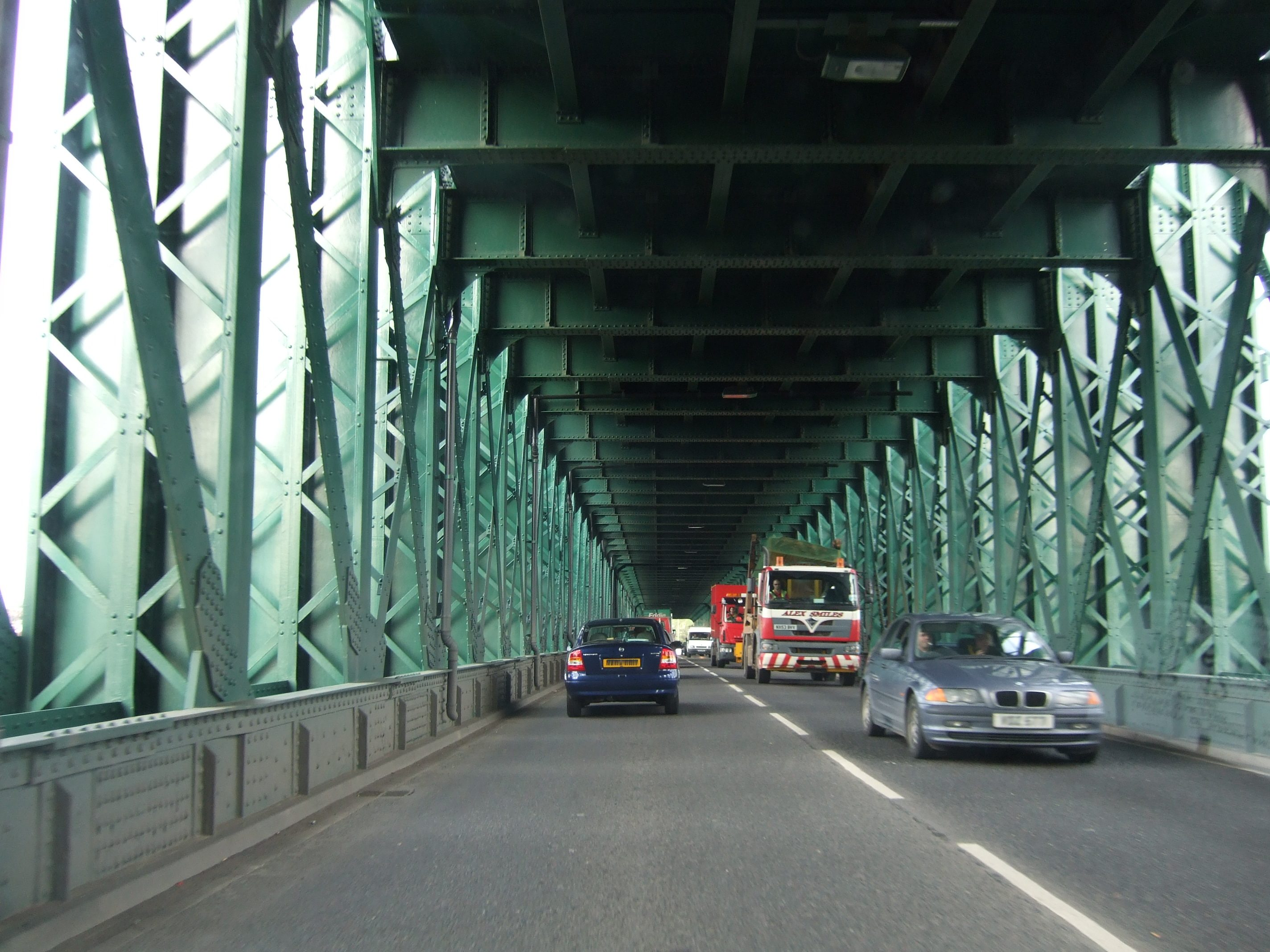 Inside the Queen Alexandra Bridge across the River Wear at Sunderland, England.